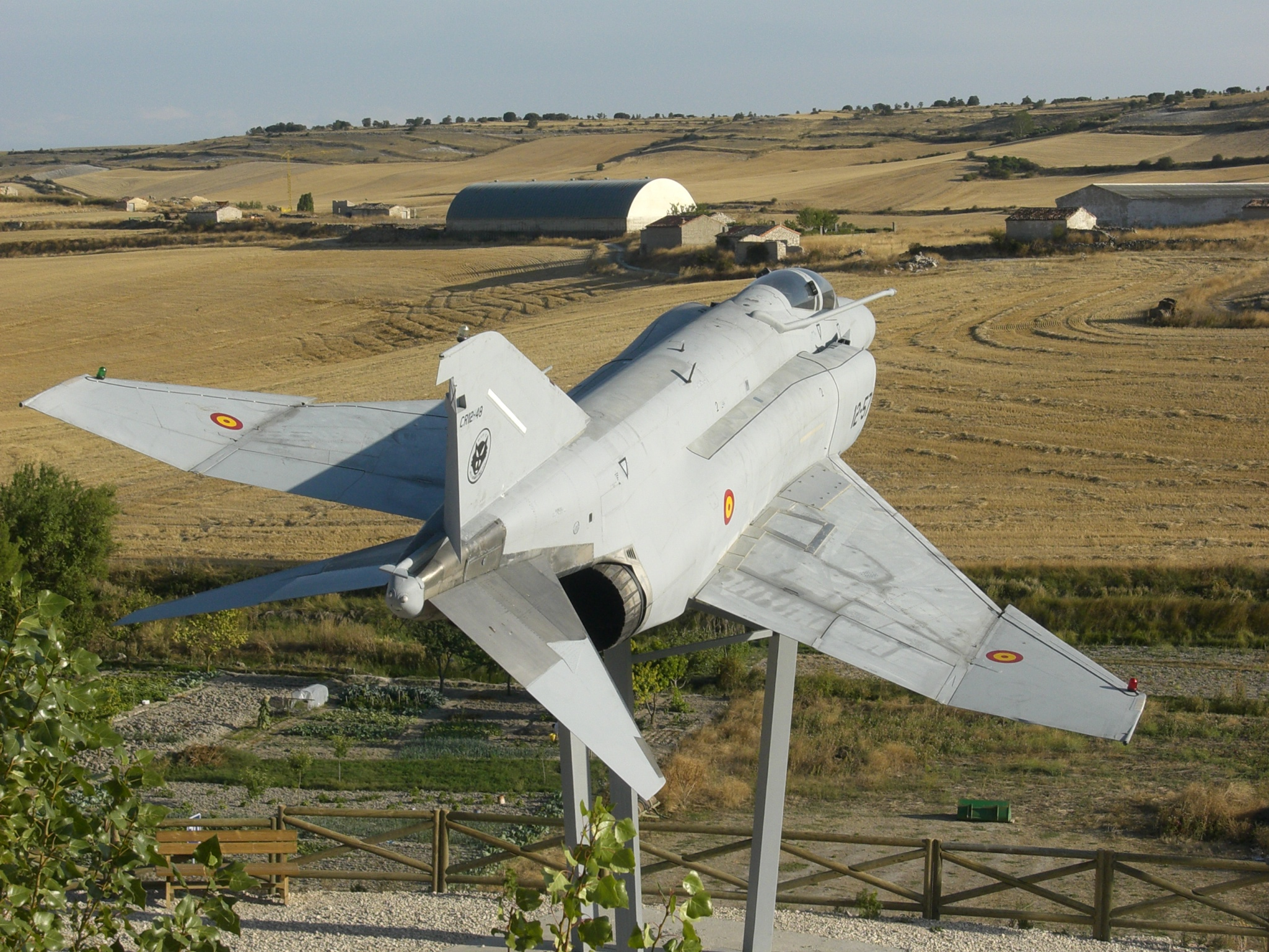 A McDonnell Douglas RF-4C Phantom II reconnaissance plane on display at Antigüedad, Palencia, Spain, as a monument in memory of Spanish pilots beginers of Spanish aviation that were born at this town, Martín Campos brothers. This aircraft had the Spanish registration CR12-48, MDC c/n 1213, ex-USAF s/n 65-0822, and served with the 123 Esquadron, Ala 12, Spanish Ejercito del Aire, at Torrejon air base (side number "12-57").